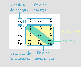 This is a translation into Spanish of this image